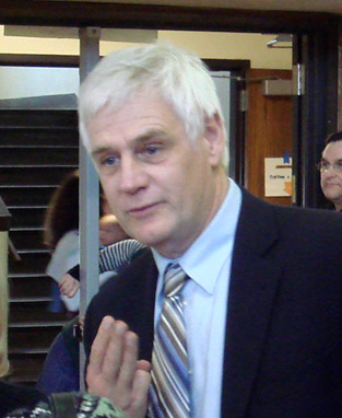 Jack Nelson-Pallmeyer, during a political caucus in Minnesota.